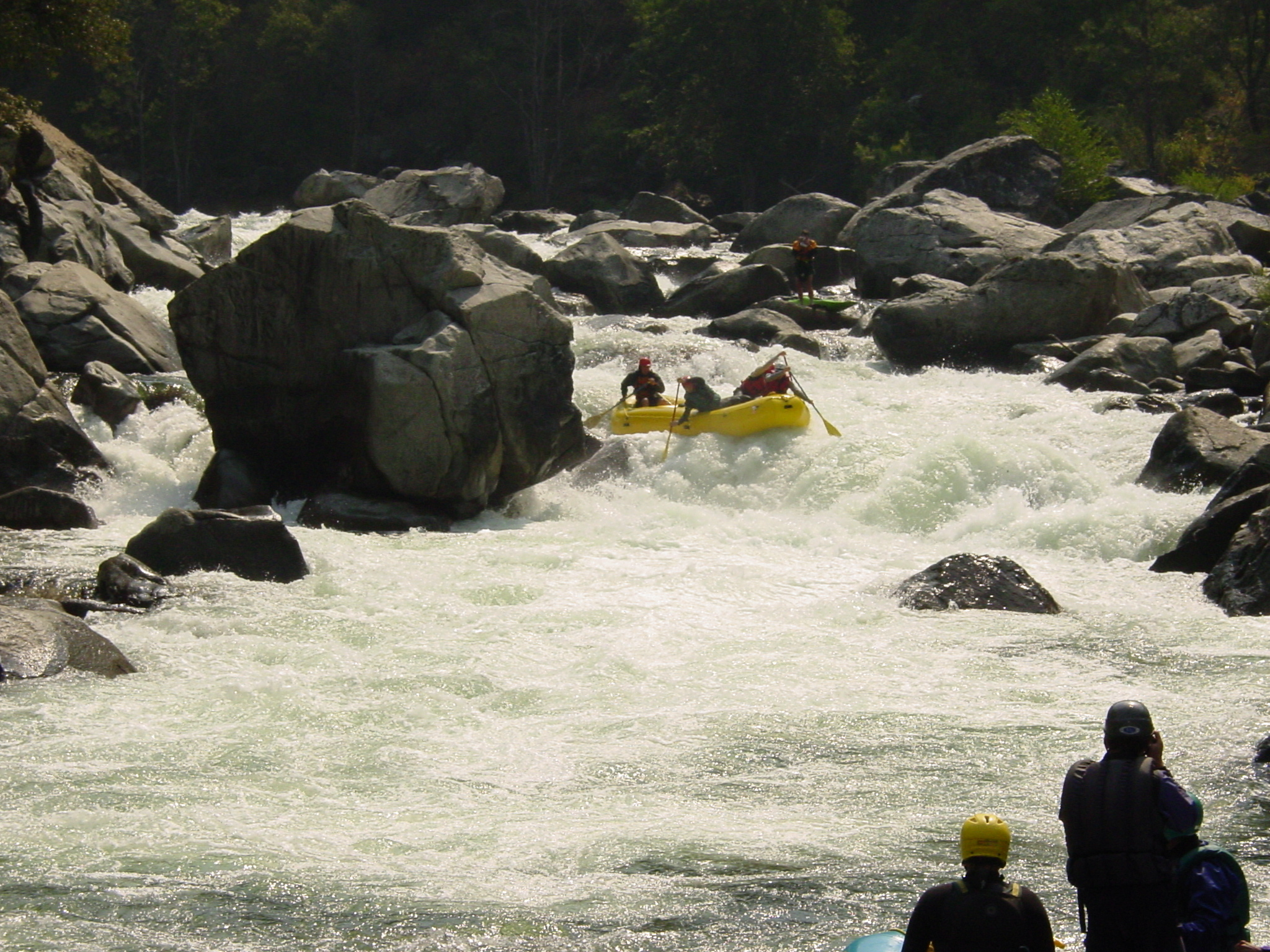 Rafters on Cherry Creek in Tuolumne County, CA